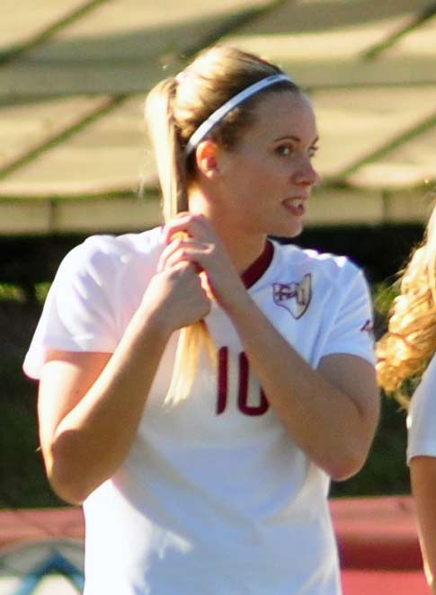 Pregame FSU Soccer vs BC